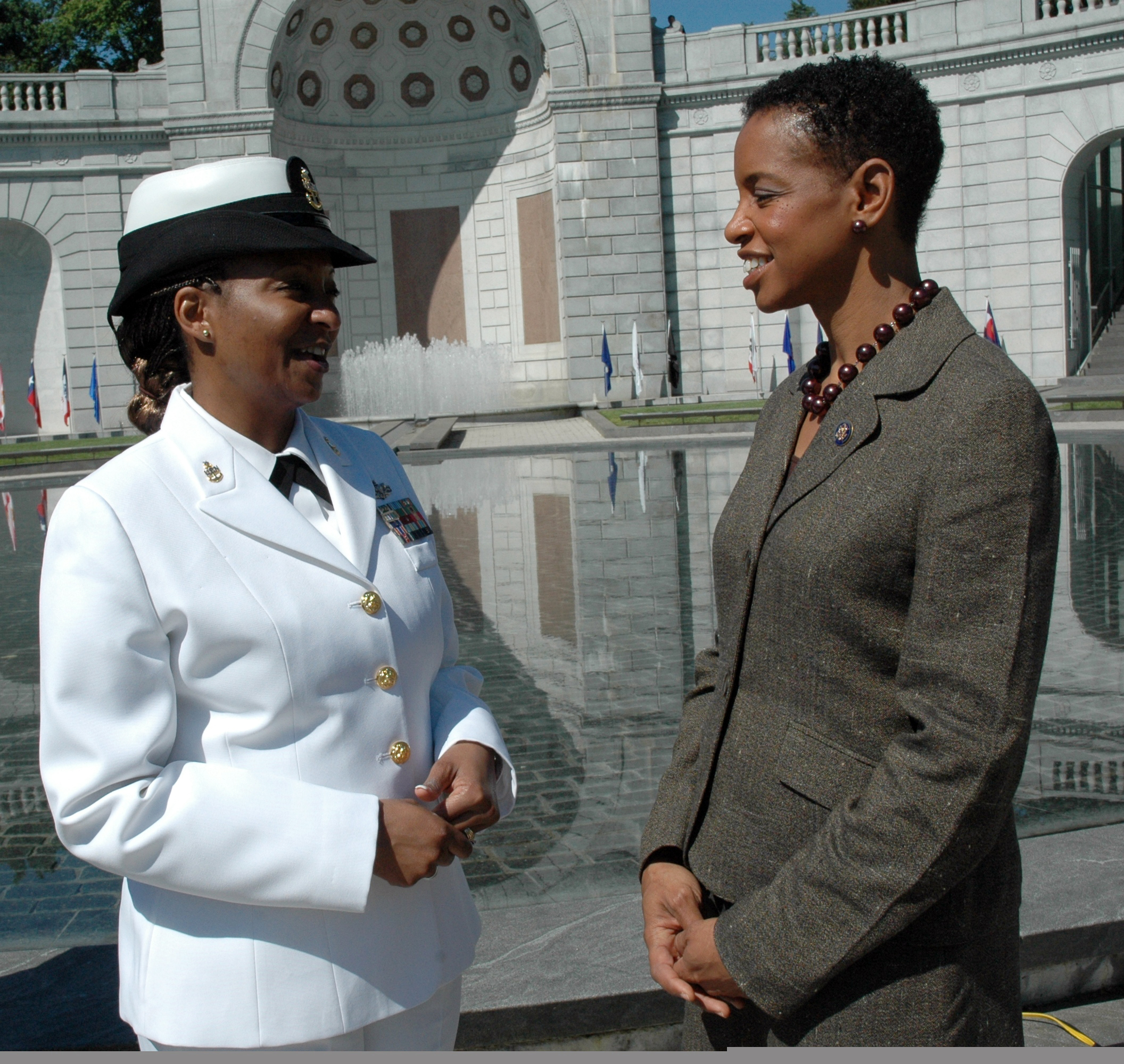 ARLINGTON, Va. (May 19, 2009) U.S. Rep. Donna F. Edwards speaks with Senior Chief Yeoman Dee Allen during the 12th Annual Women in the Military Wreath Laying Ceremony at the Women in Military Service for America Memorial. The Congressional Caucus for Women's Issues hosted the event, which honored one enlisted female from each of the armed services. Allen, who works at the Navy Office of Women's Policy, was honored for her accomplishments over the past 21 years while serving in key leadership positions in the U.S. and Japan.